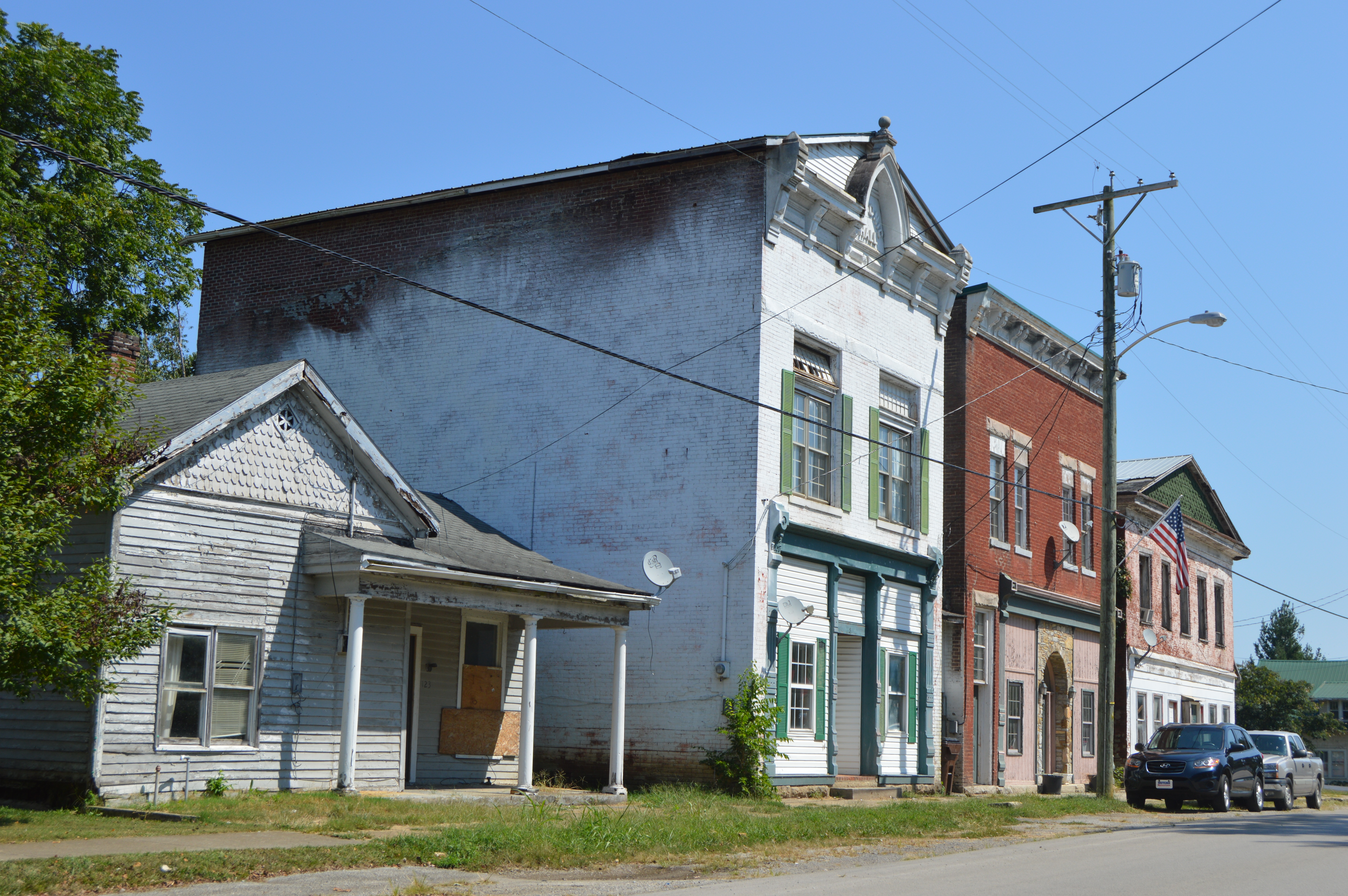 Buildings on the northern side of Main Street (U.S. Route 460) near the Cook Street intersection in North Middletown, Kentucky, United States.